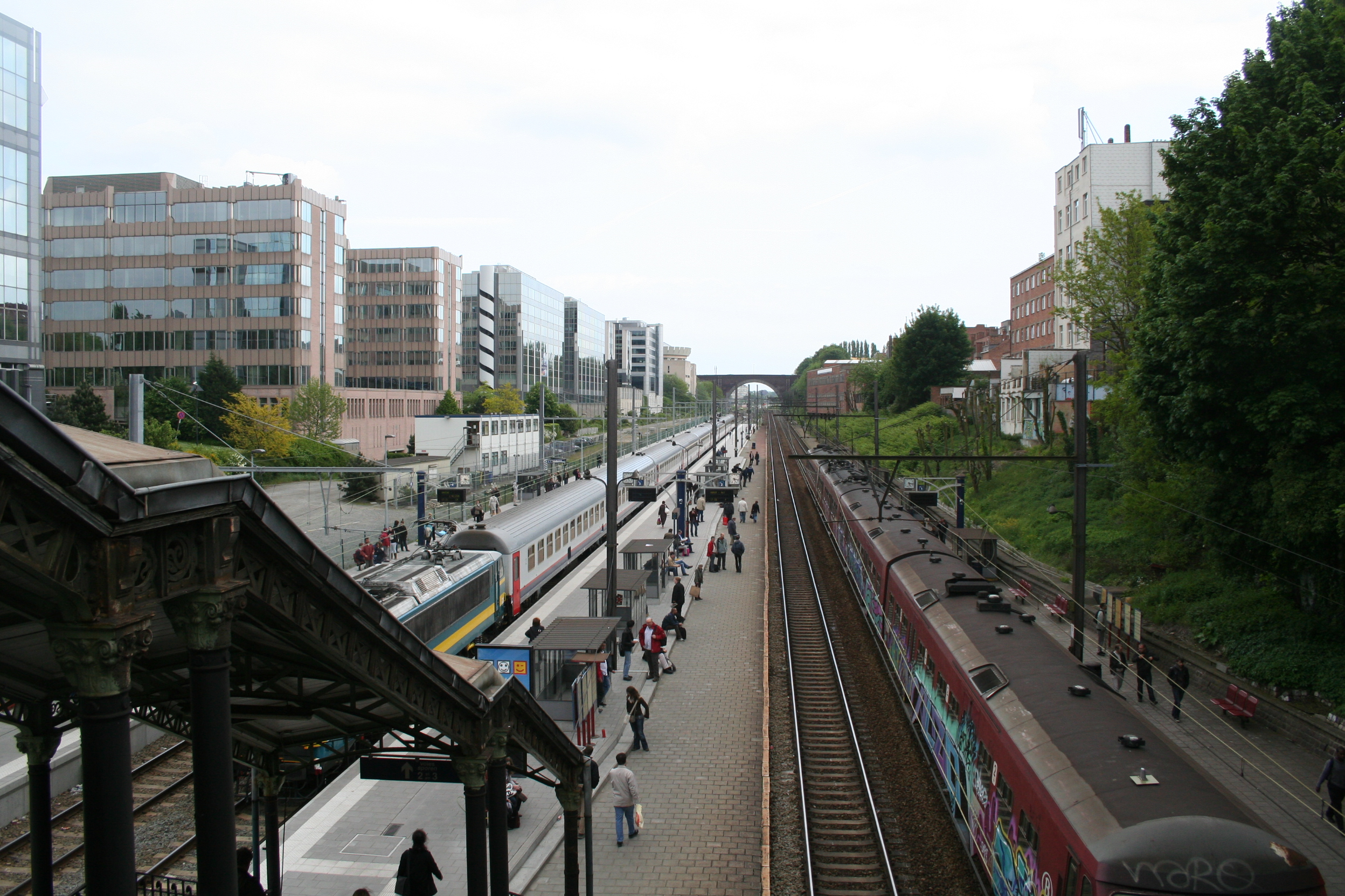 Gare d'Etterbeek looking down on the tracks